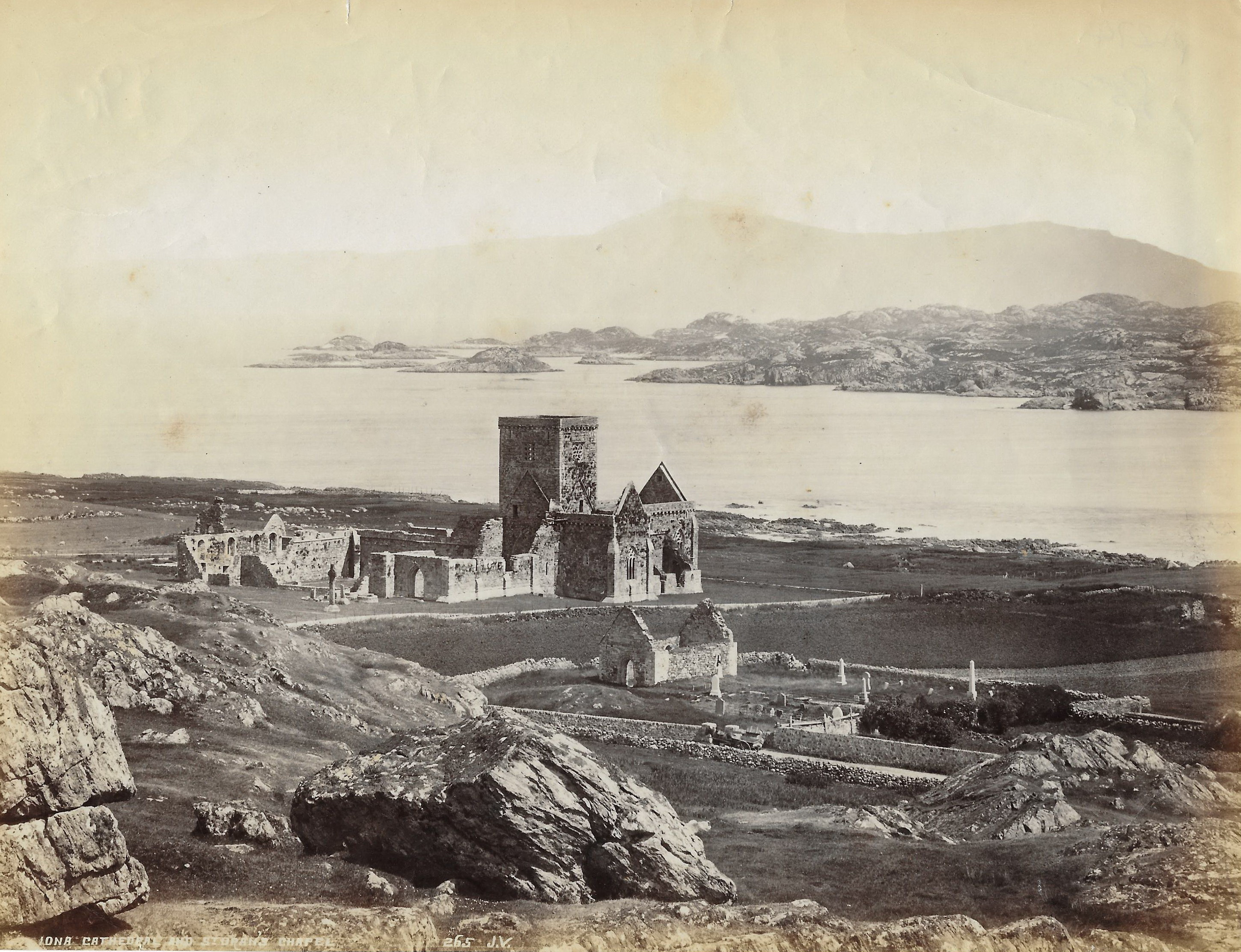 This view of Iona Abbey shows the Abbey in its ruinous condition before work to restore the Abbey commenced in the early C20